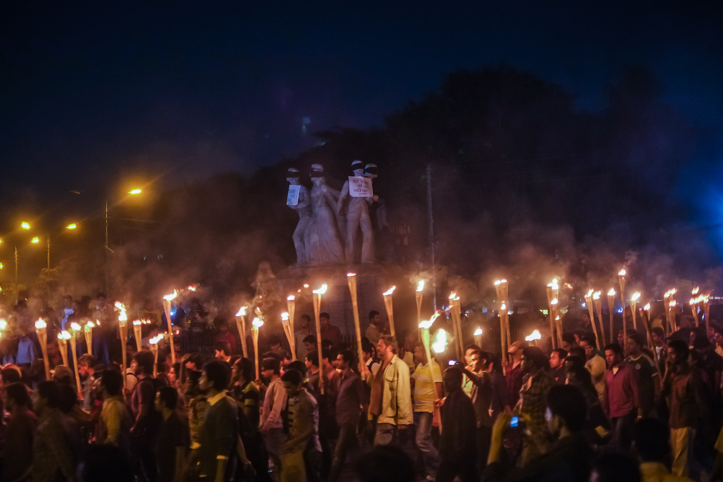 Uprising of people at Shahbag, Dhaka, Bangladesh demanding death penalty of Kader Molla and all other war criminals who are now being tried before the International Crimes Tribunal Bangladesh for the serious crimes they have committed during the Liberation War of Bangladesh in 1971. Perpetrators of war crimes, genocide and crimes against humanity have NO place in Bangladesh. This is public opinion. BACKGROUND: On 5 February 2013, International Crimes Tribunal-2 delivered judgment against Kader Molla, who was accused of rape of minor and at least 350 murders. Tried for his crimes against humanity, his crimes were proven beyond reasonable doubt, according to the judgment. However, the Tribunal comprising of Mr Shahinur Islam, Obaidul Hasan Shahin and Mojibur Rahman awarded Kader Molla life sentence, instead of death penalty which the accused deserved. People, rejecting this lenient sentence, has risen, in Dhaka and other cities in Bangladesh.